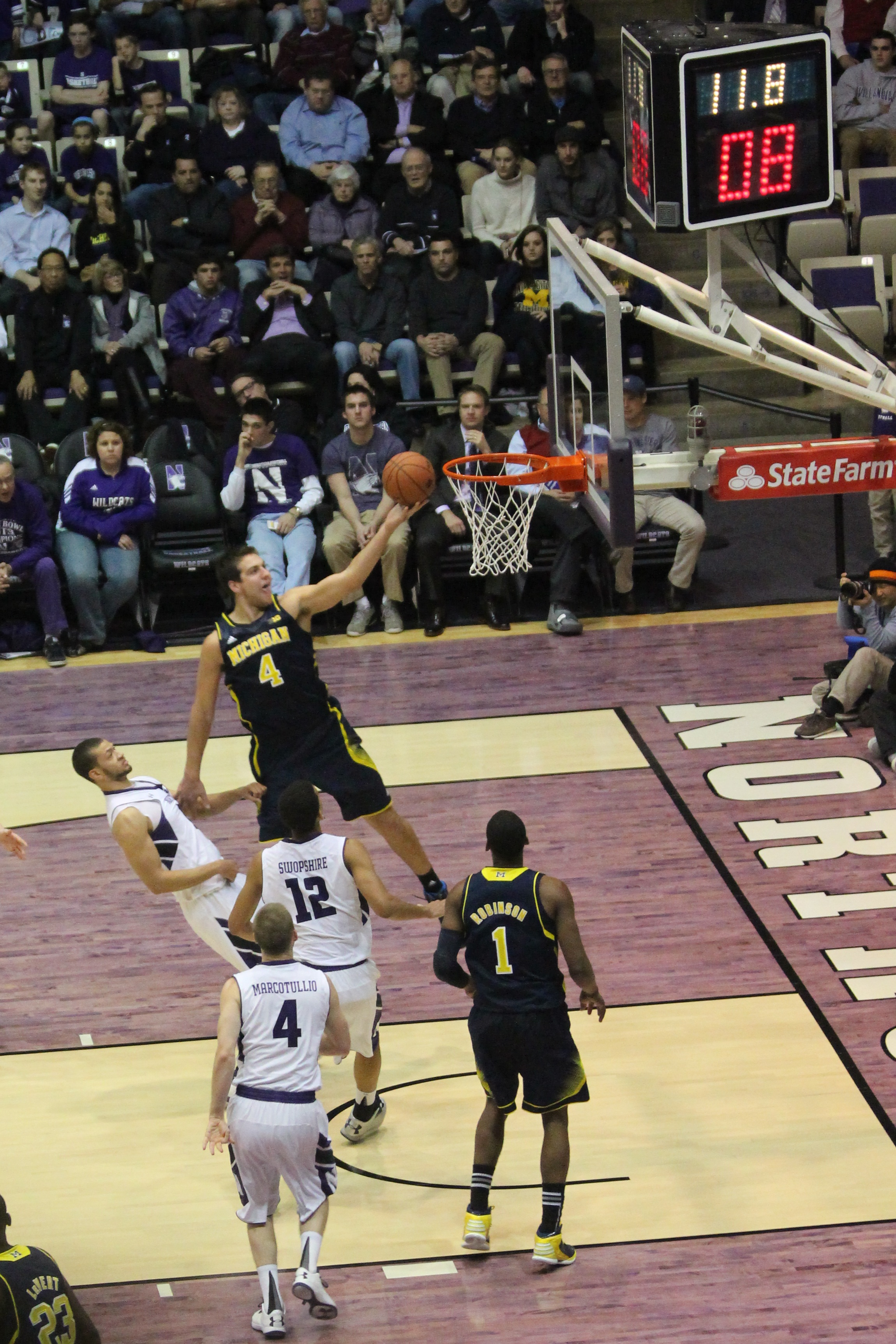 Mitch McGary (#4) attempts a shot late in the first half for the w:2012–13 Michigan Wolverines men's basketball team in the w:2012–13 Big Ten Conference men's basketball season opener on January 3 against Northwestern